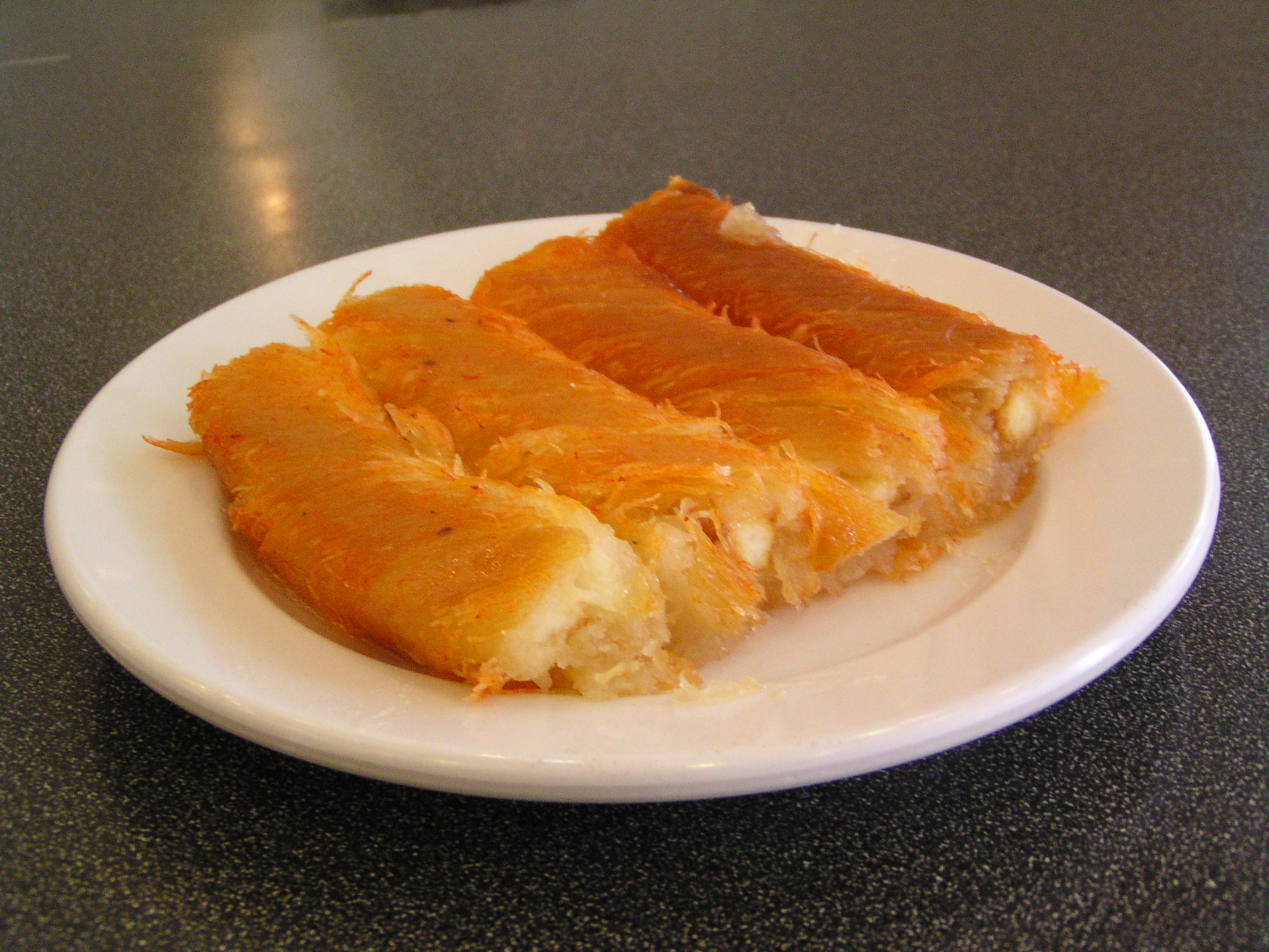 Knafe, a Levantine sweet pastry, on a plate.